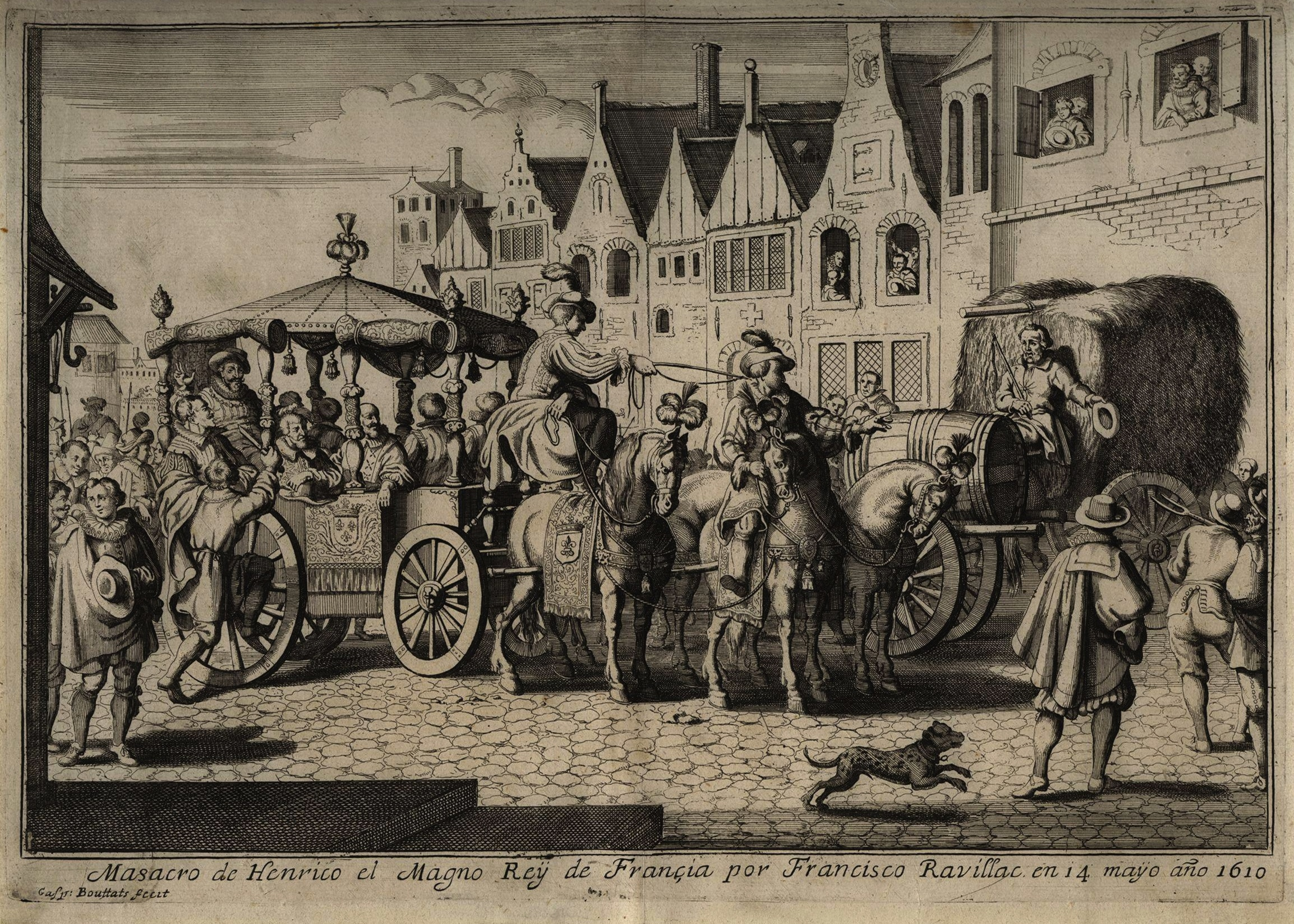 Assassination of Henry IV (Henry IV, King of France; François Ravaillac), by Gaspar Bouttats, given to the National Portrait Gallery, London in 1931. All images in this batch have a known author, but have been manually examined for strong evidence that the author was dead before 1939, such as approximate death dates, birth dates, floruit dates, and publication dates.